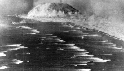 H-hour at Iwo Jima